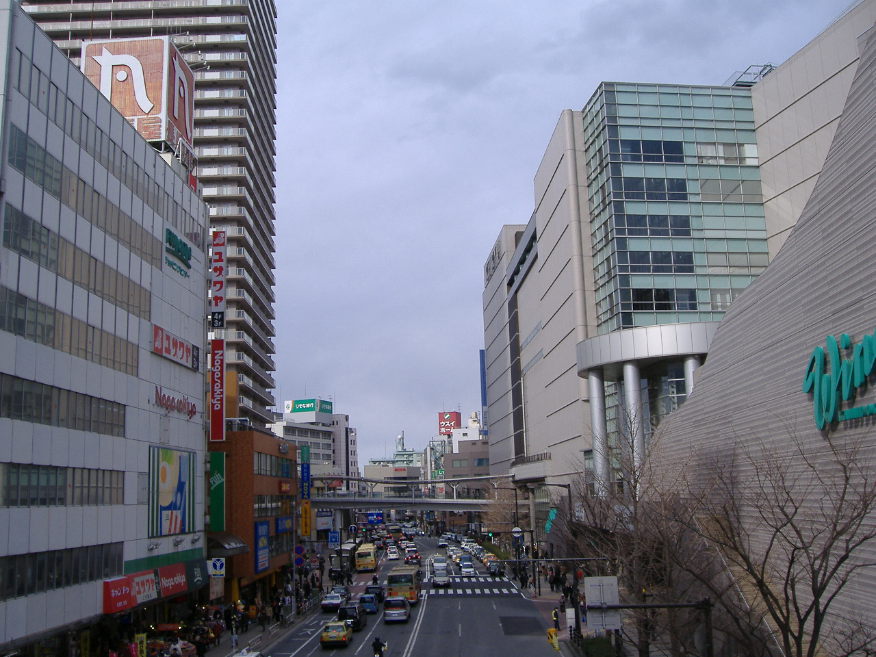 Shoppingmall "camio" (Yokohama,Japan)